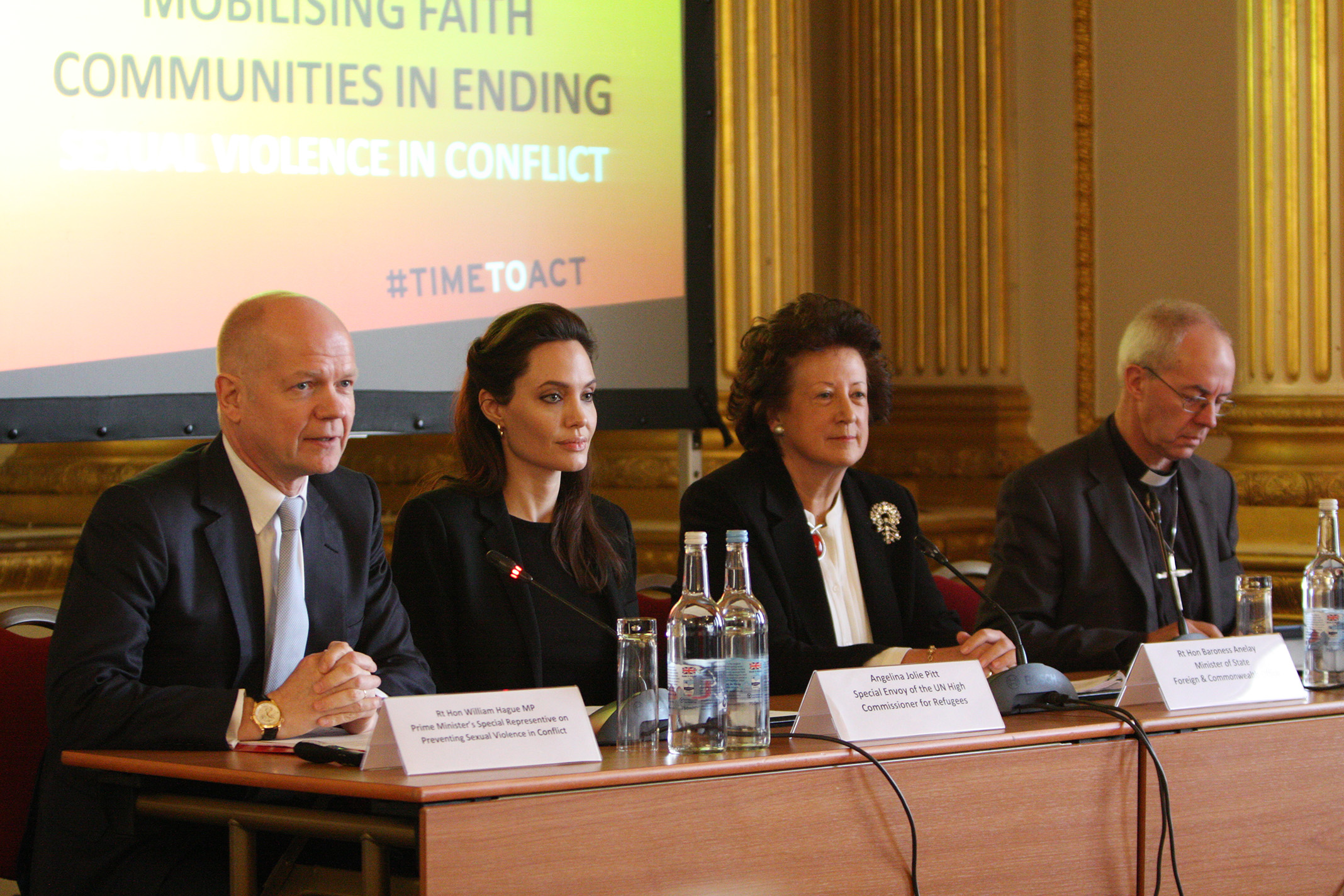 Mobilising Faith Communities in Ending Sexual Violence in Conflict meeting in London, 9 February 2015.